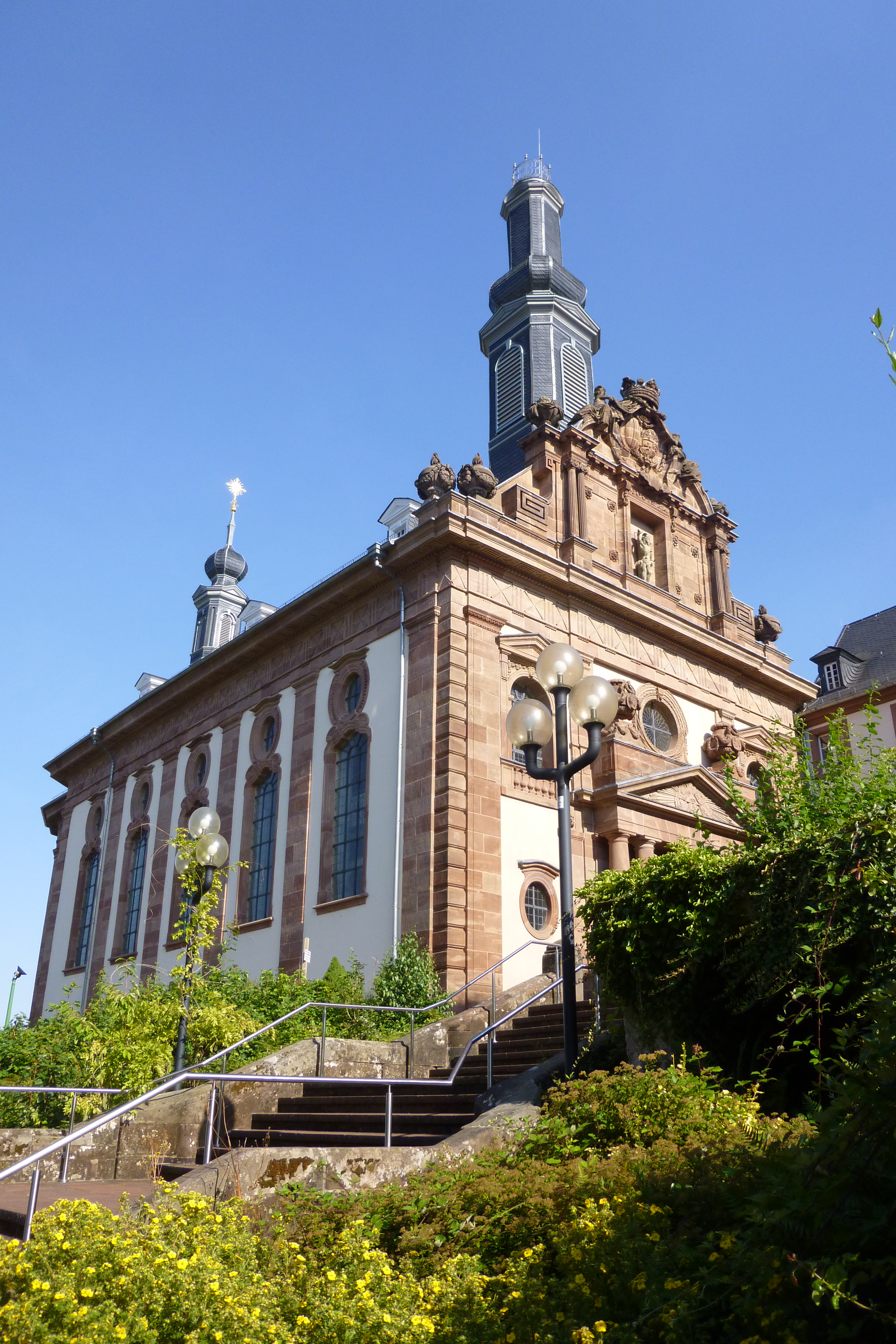 Facade of Blieskastel Schlosskirche (Castle church) (Saarland, Germany)